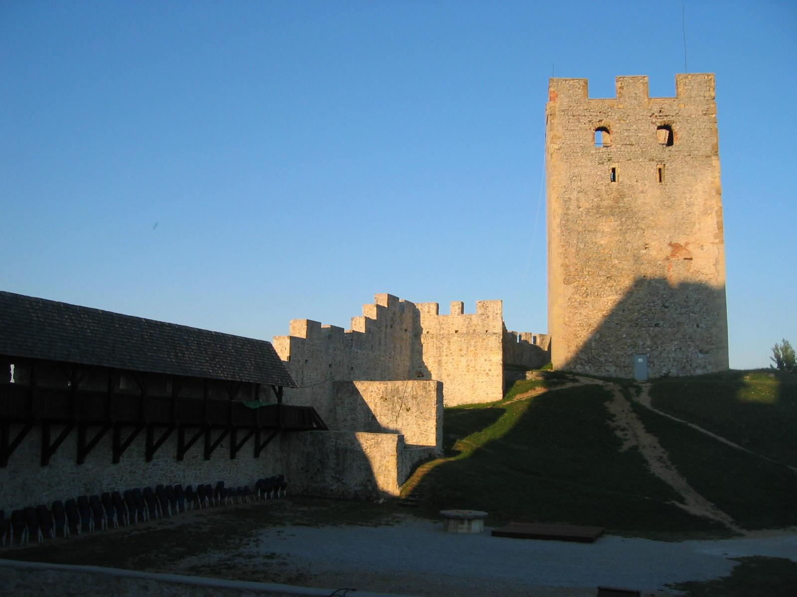 Celje Castle (above Celje, town in Slovenia). Frederick tower. Photo:Ziga 21:44, 21 August 2006 (UTC)